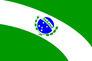 Paraná Flag, 1905-1923